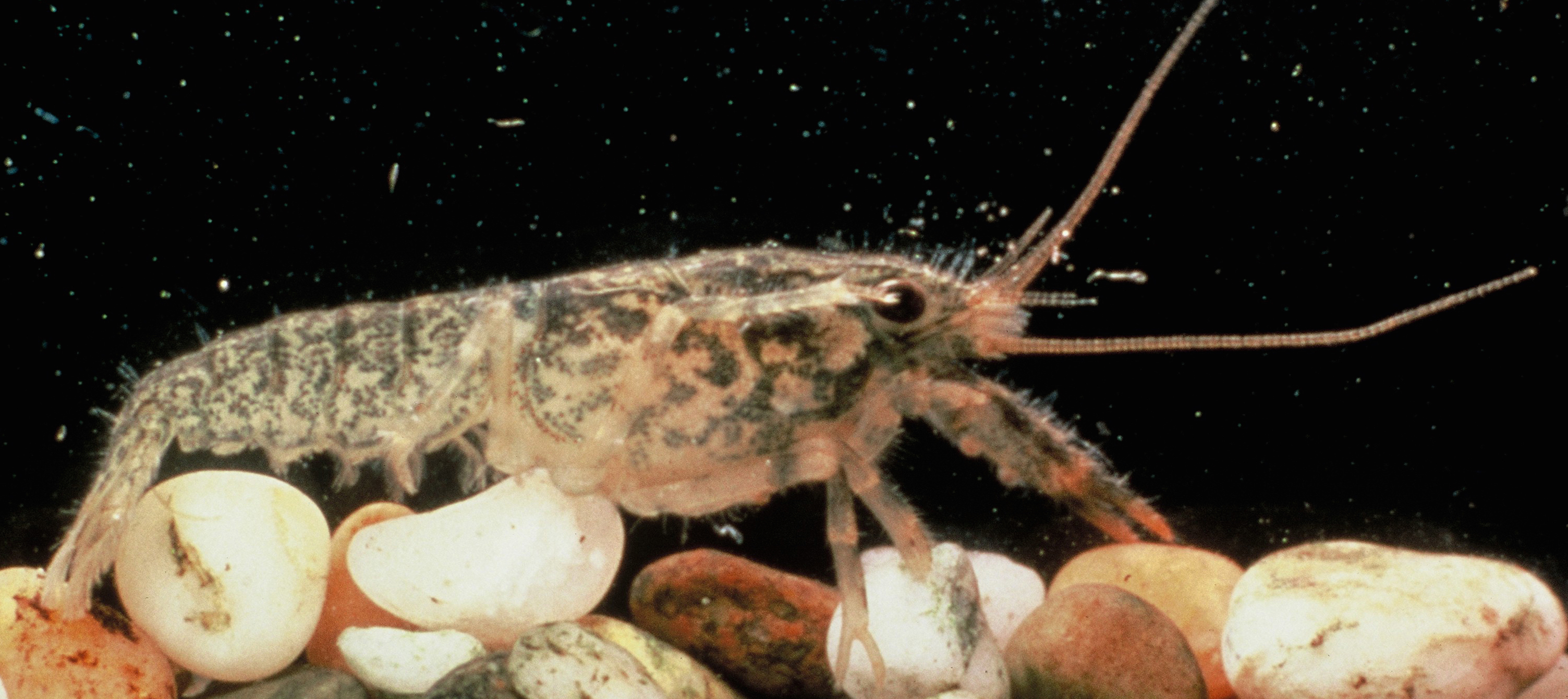 A New Zealand freshwater crayfish, Paranephrops planifrons